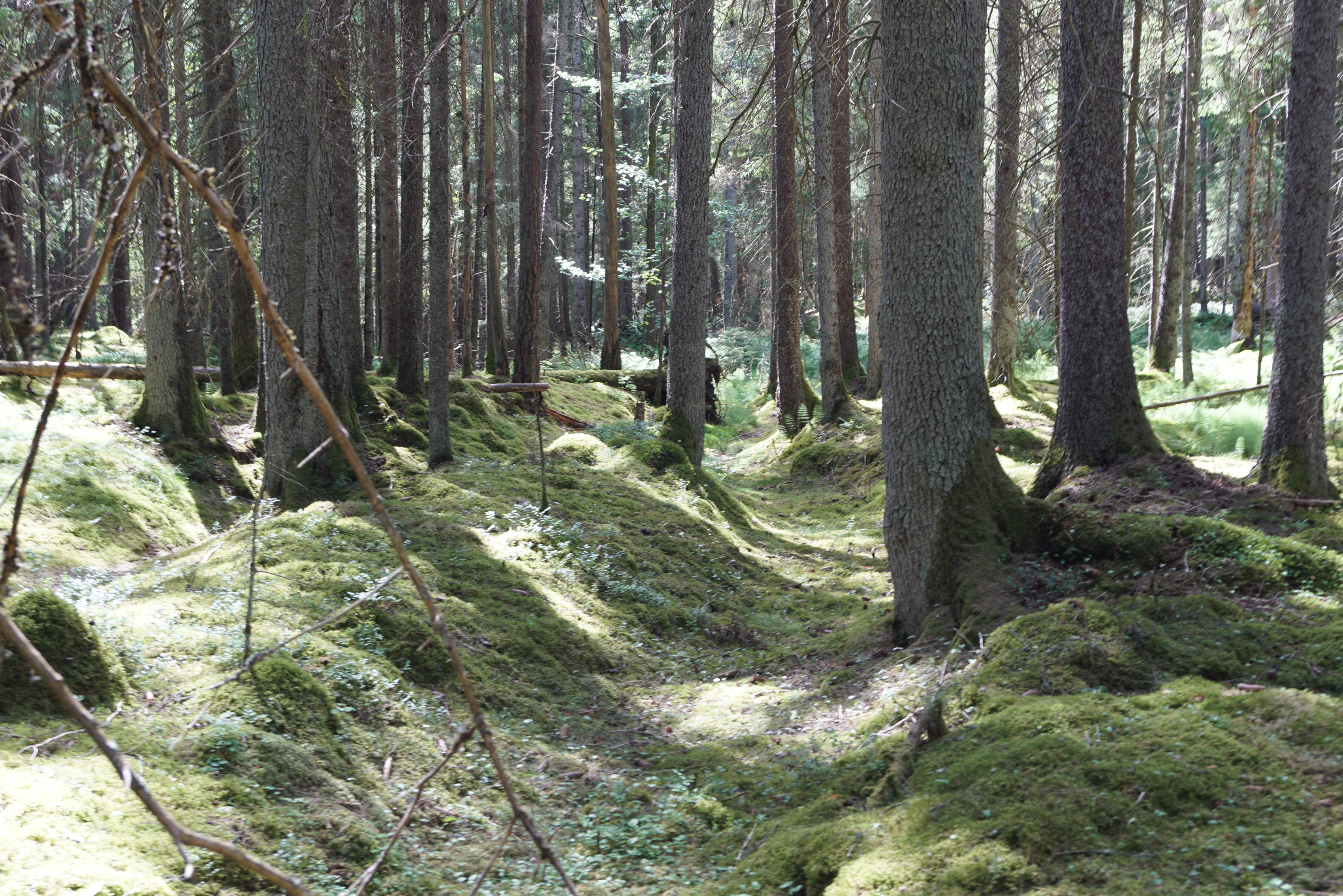 A narrow pass from the medievale riding path Lödösevägen in the nature reserve Slereboåns dalgång, Ale Municipality, Västra Götaland County, Sweden